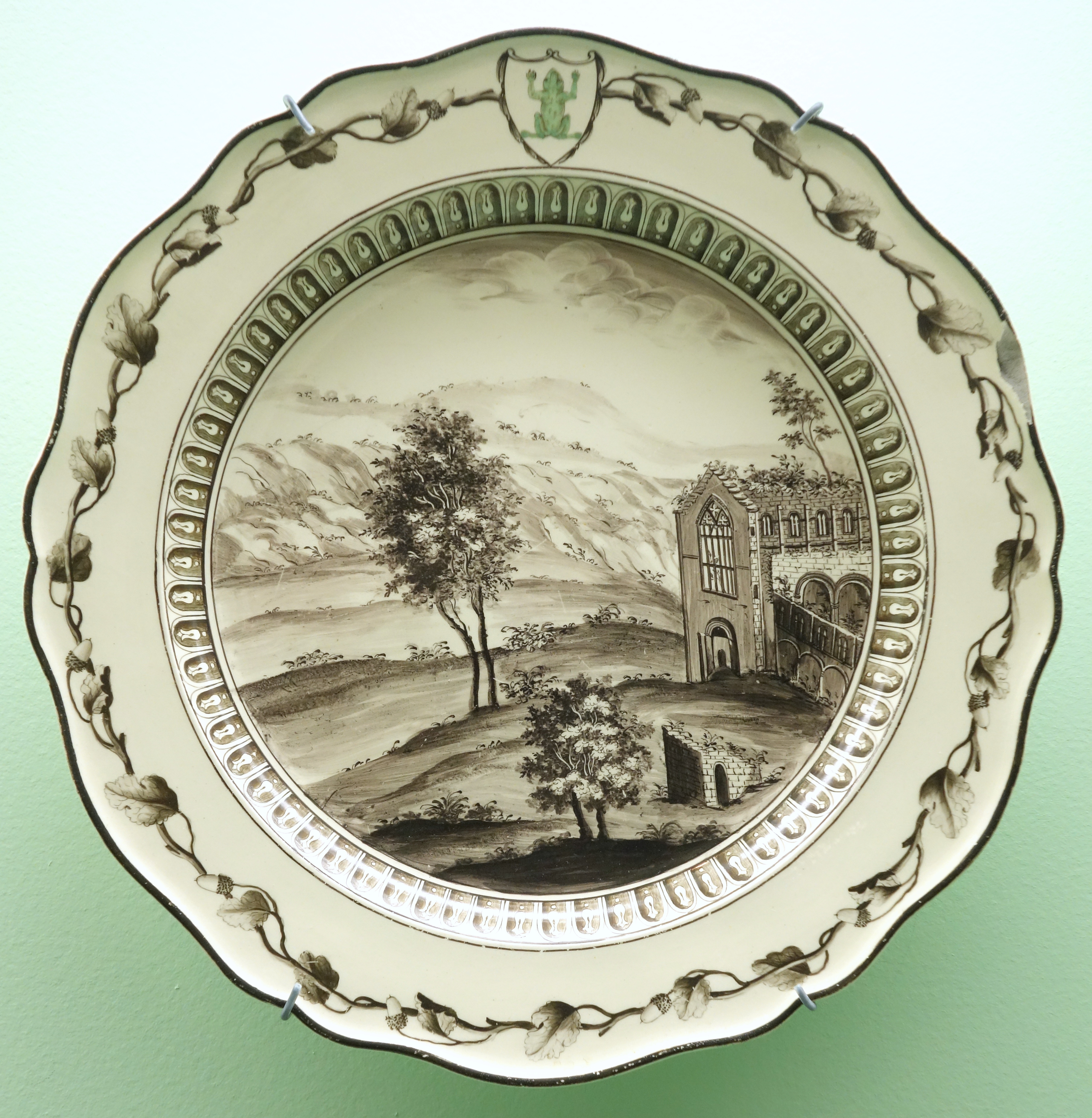 Exhibit in the Brooklyn Museum - Brooklyn, New York, USA. This artwork is in the public domain because the artist died more than 70 years ago.